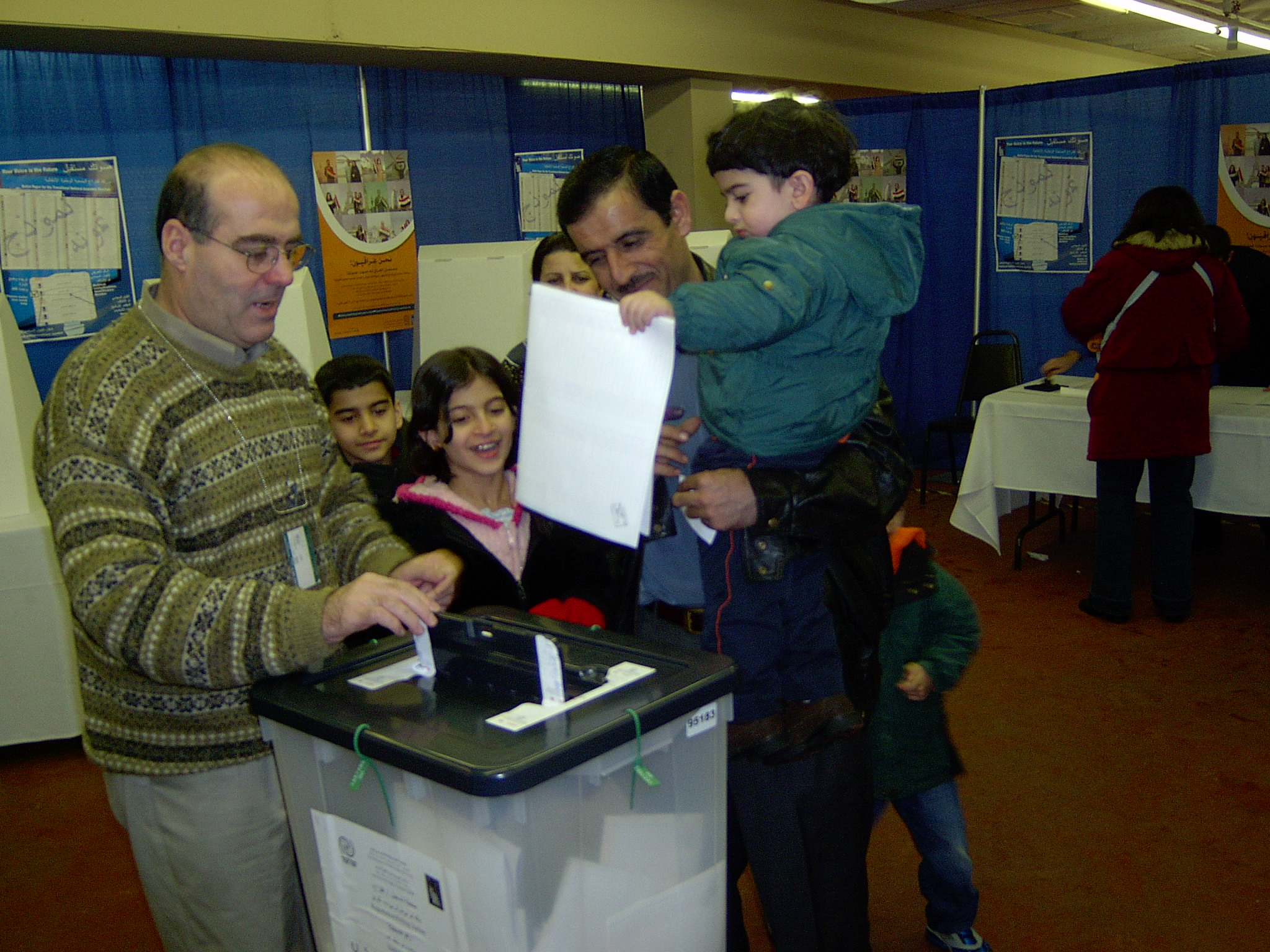 Iraq Out of Country Voting at the Washington, DC site (actually New Carrollton, Maryland) in the U.S. on Sunday, 31 January 2005. Uploaded by photographer.